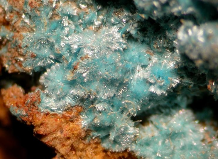 Serpierite Locality: Genna zinc smelter (slag locality), Letmathe, Iserlohn, Sauerland, North Rhine-Westphalia, Germany Field of view 4 mm. Specimen and photo Leon Hupperichs.